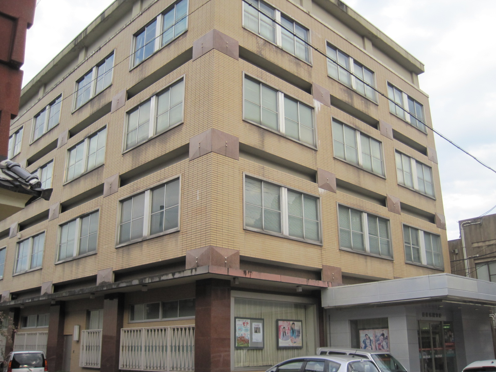 Kono Shinkin Bank (Noto town, Ishikawa prefecture, Japan)